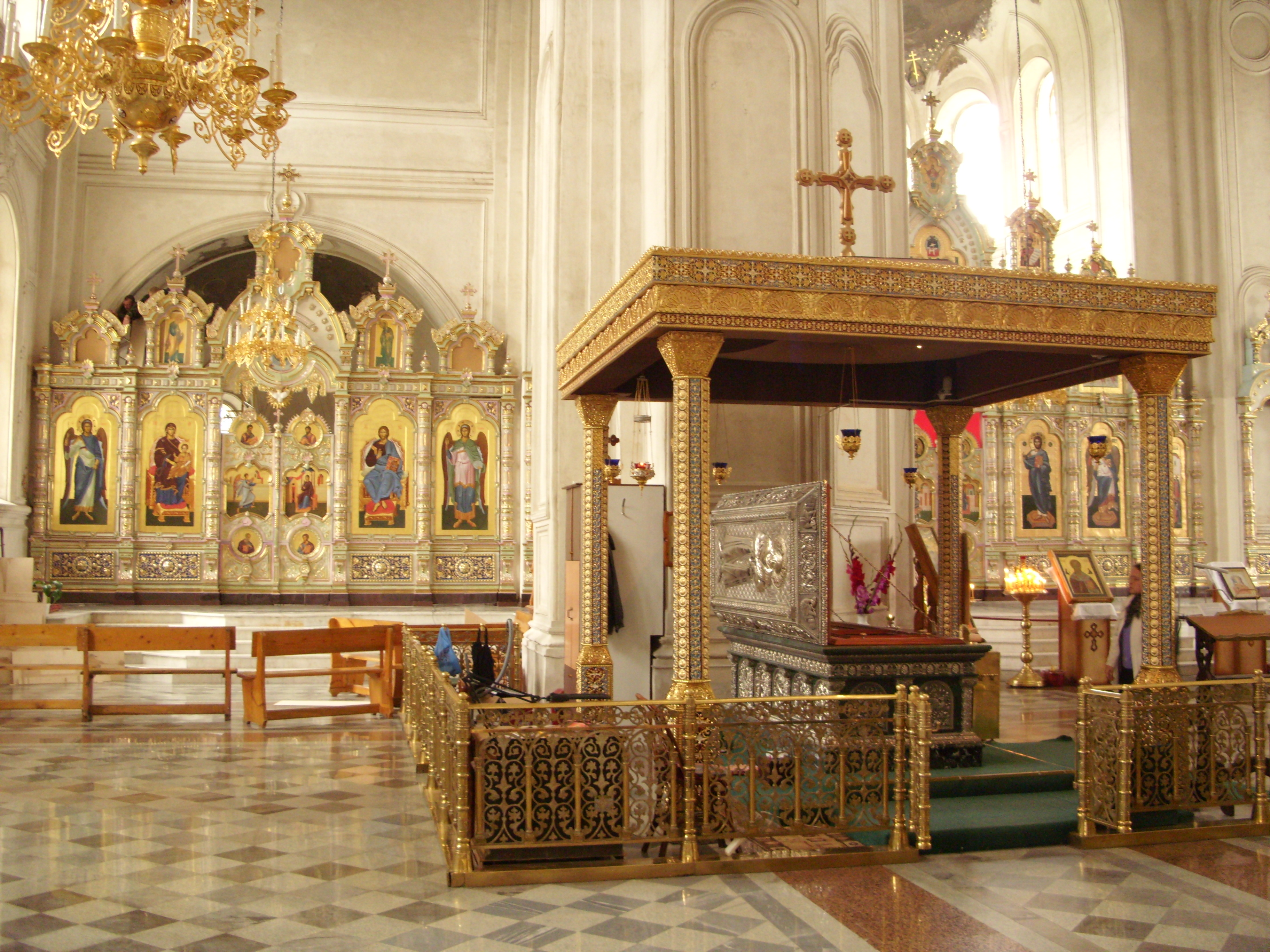 Sen' nad rakoyu Sv. Simeona